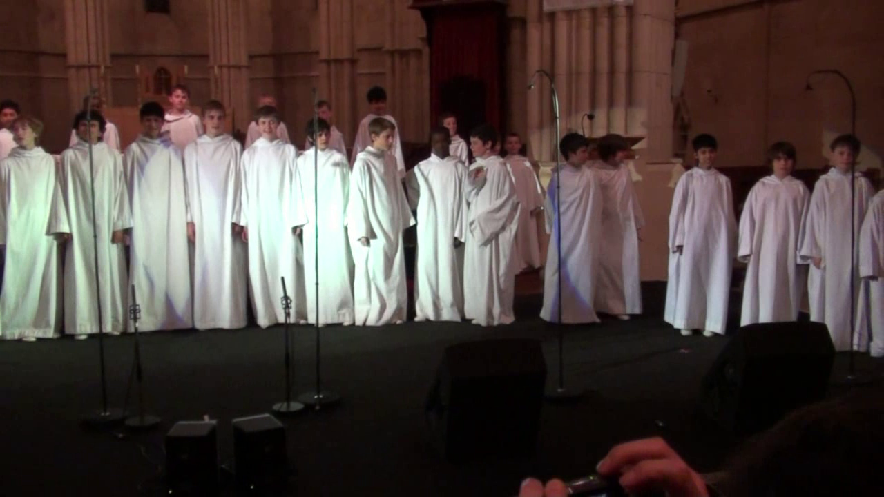 Picture from Libera's concert in Arundel, may 2010